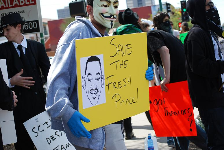 We serenaded the Scientologists with the "Fresh Prince of Bel Air" theme song.